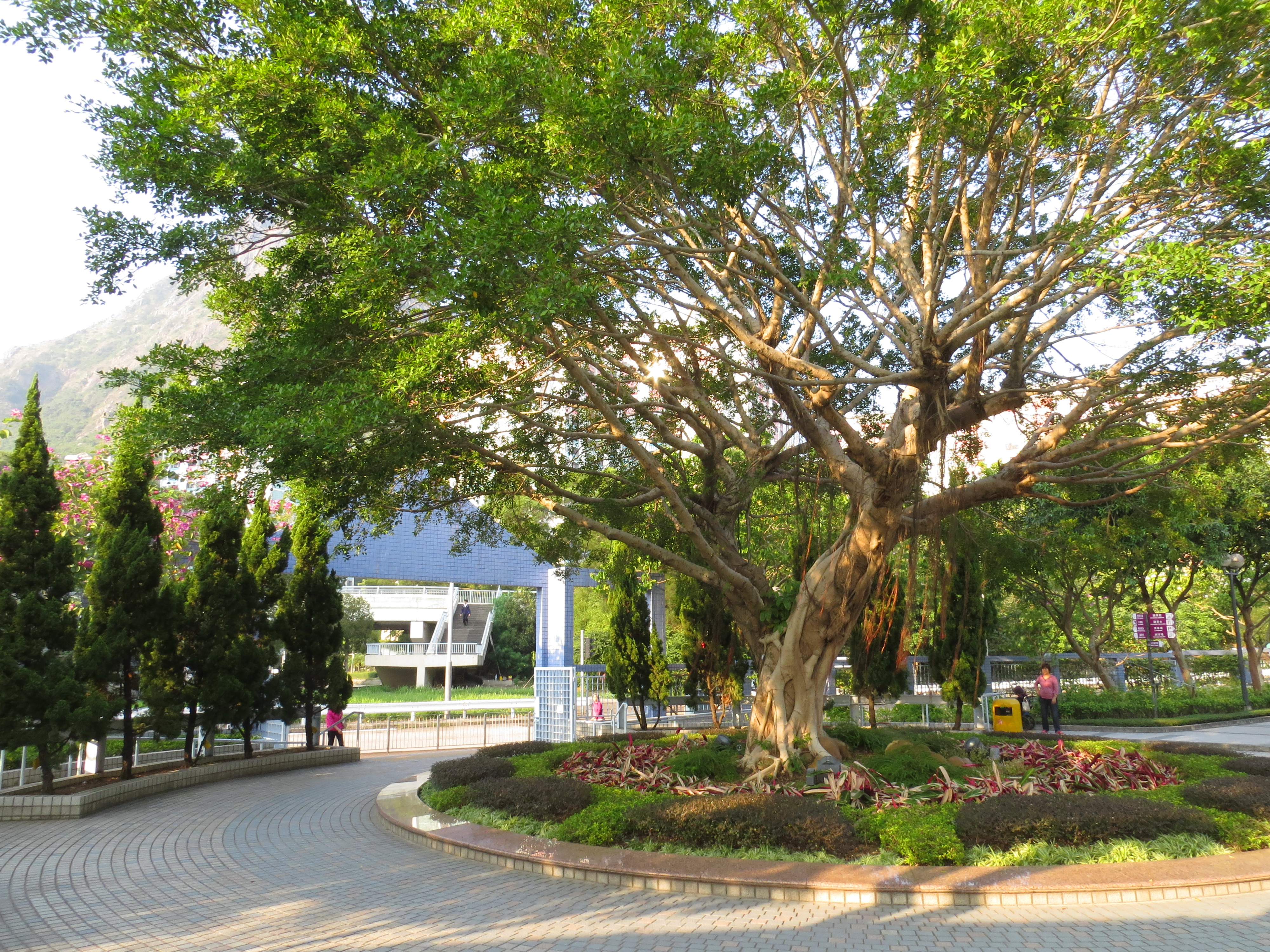 Shun Lee Tsuen Park, Kwun Tong District, Kowloon, Hong Kong. Exit to New Clear Water Bay Road.